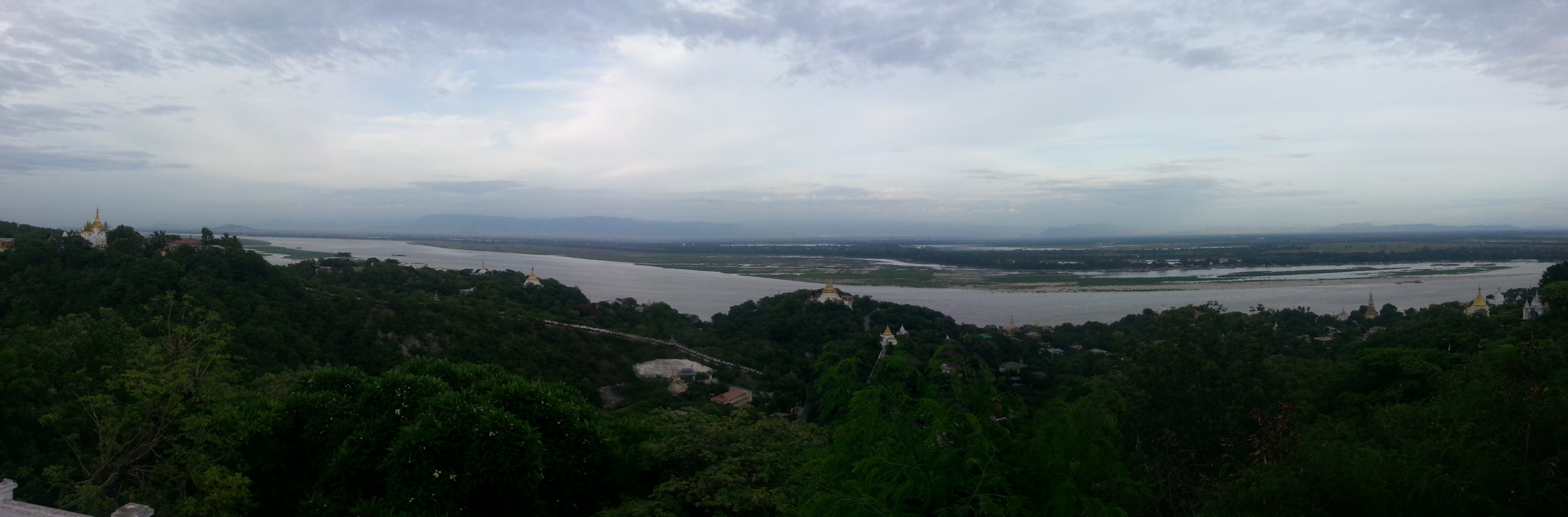 View of Ayeyarwady River from Sagaing Hill, Sagaing Division, Myanmar